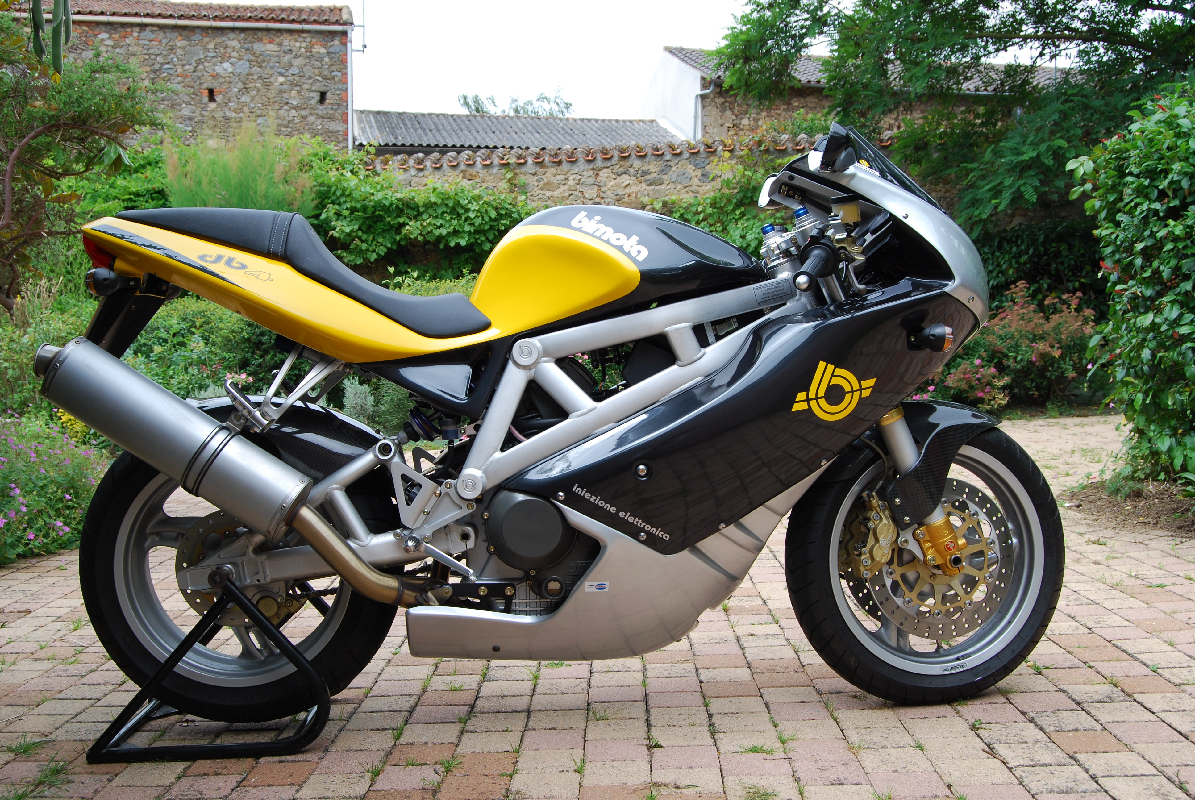 Bimota DB4 i.e.